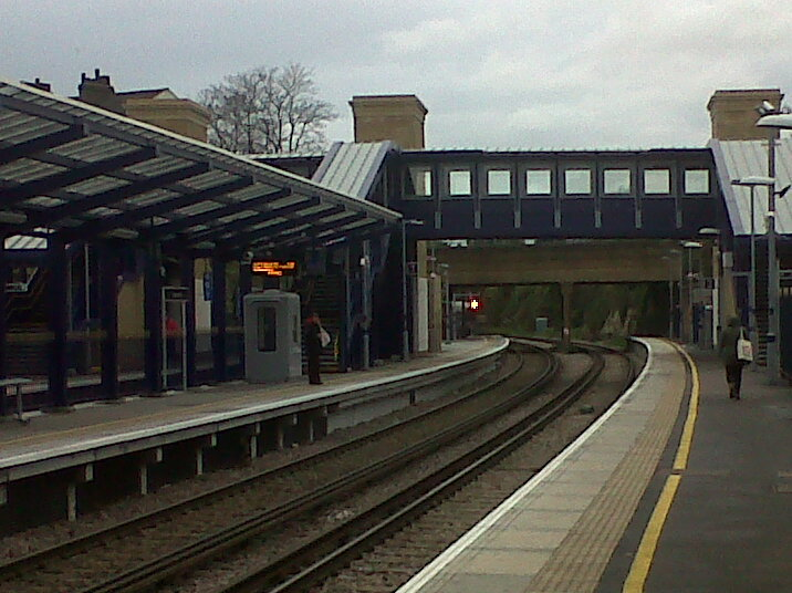 View of new footbridge and lifts at Gravesend Railway Station from Platform 2